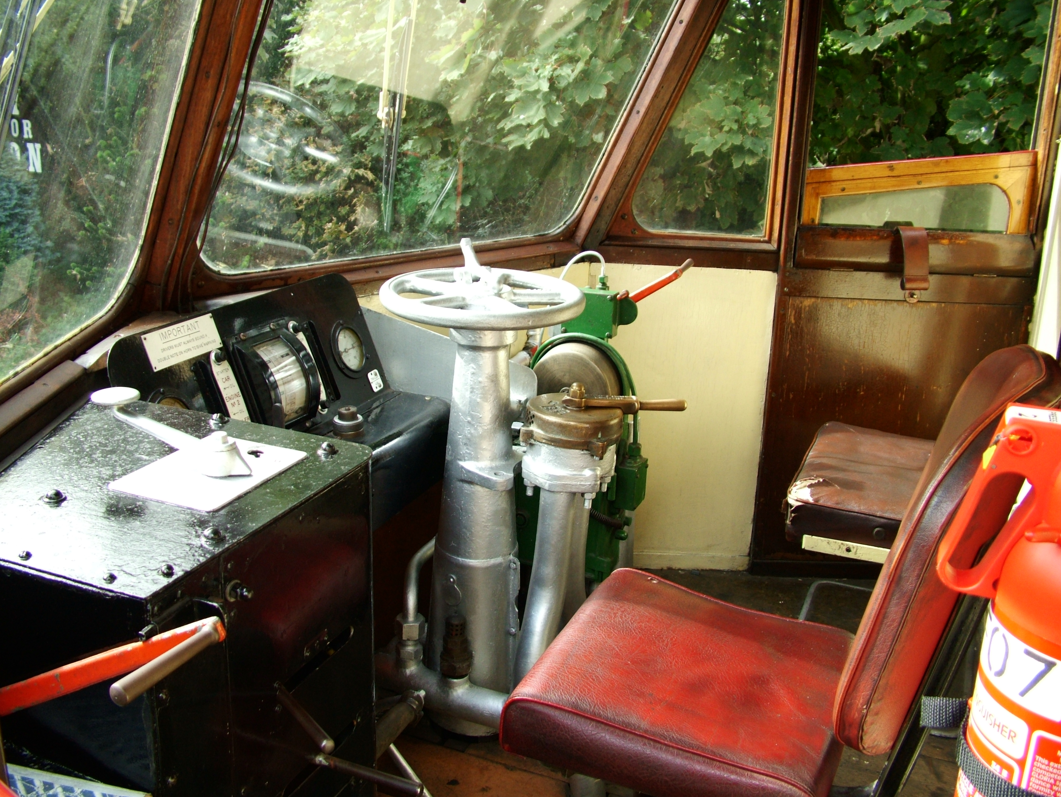 Cab of GWR Railcar 22